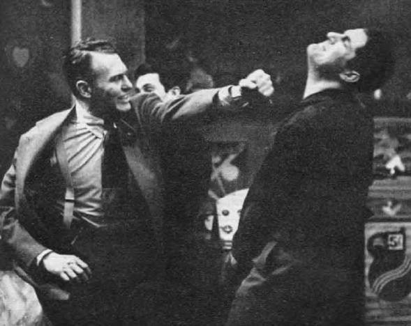 Photo of Ralph Bellamy as Mike Barnett from the television program Man Against Crime.